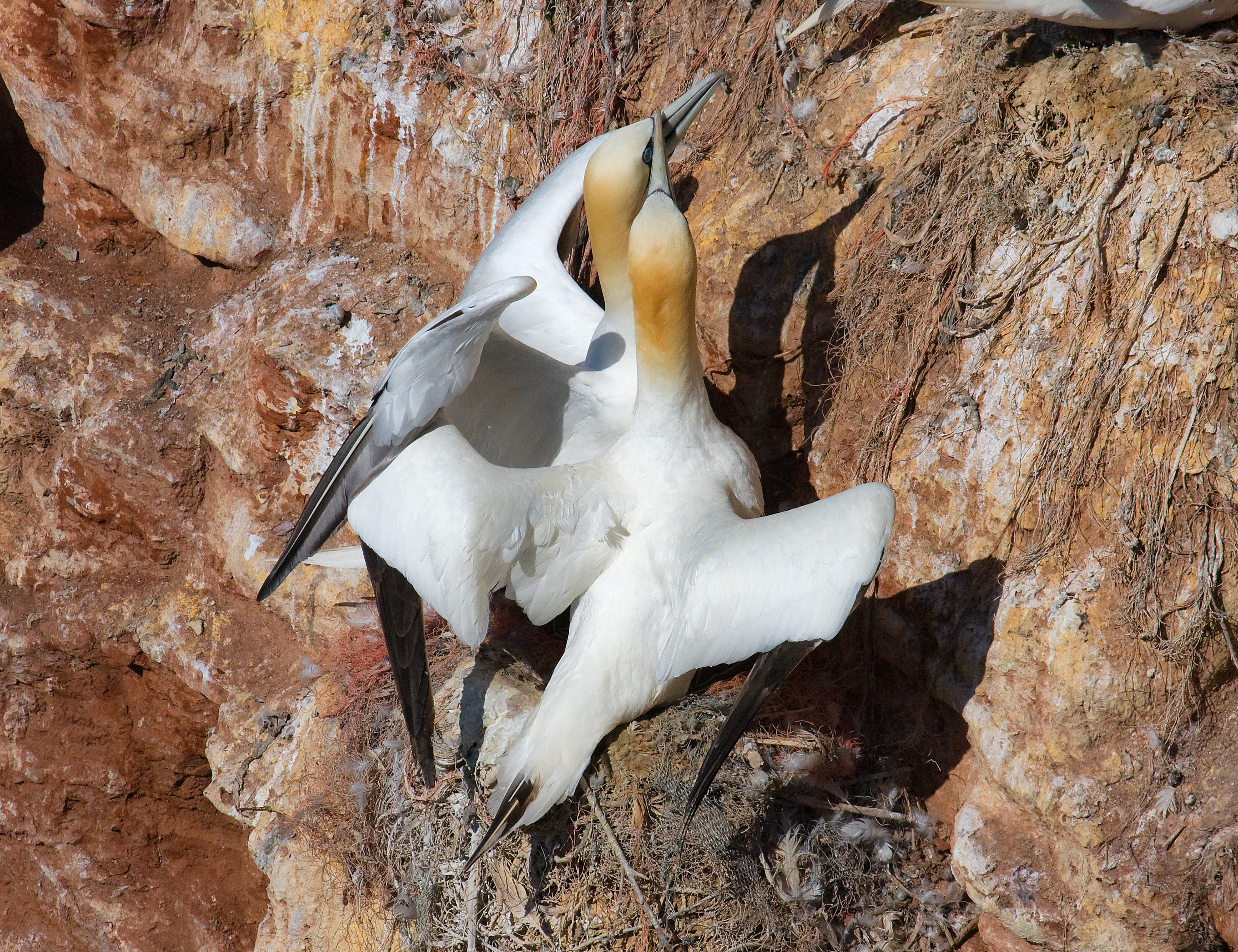 Northern Gannet